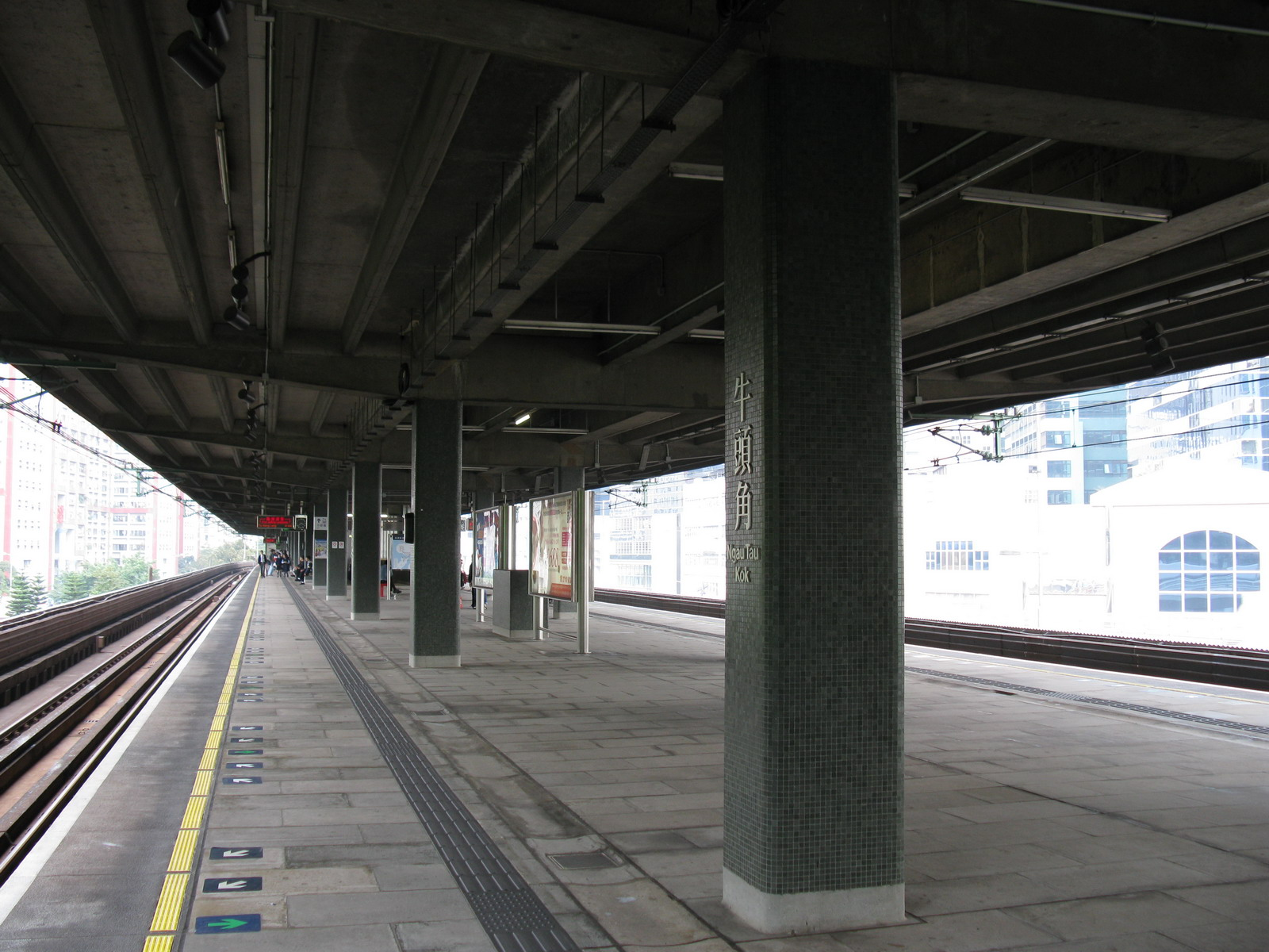 牛頭角站 觀塘綫月台 Kwun Tong Line Platform of Ngau Tau Kok Station